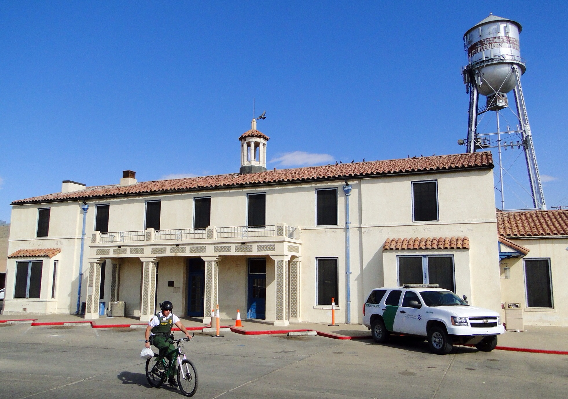 United States Inspection Station located at the Mexican border in Calexico, California